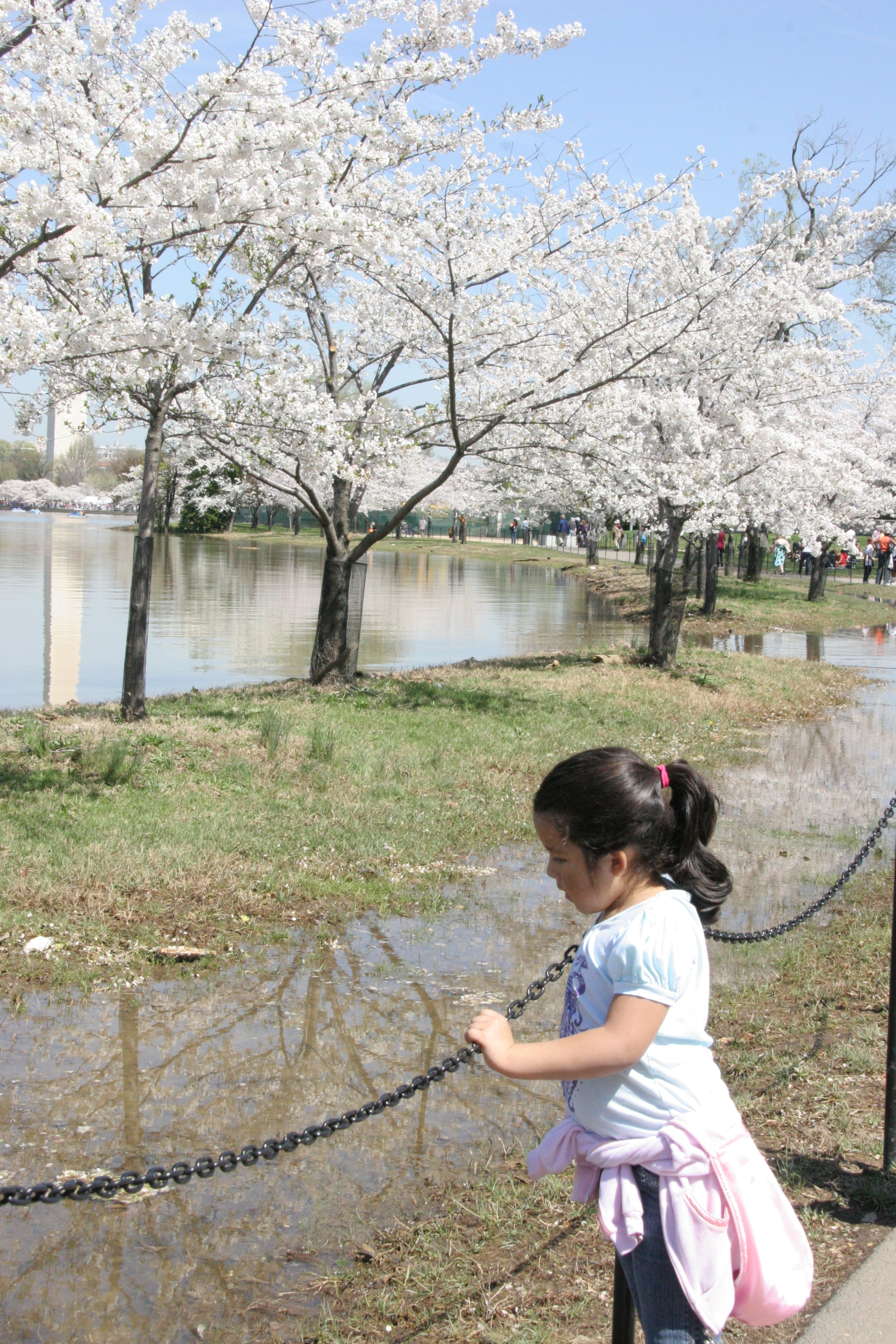 Cherry blossoms in bloom in DC